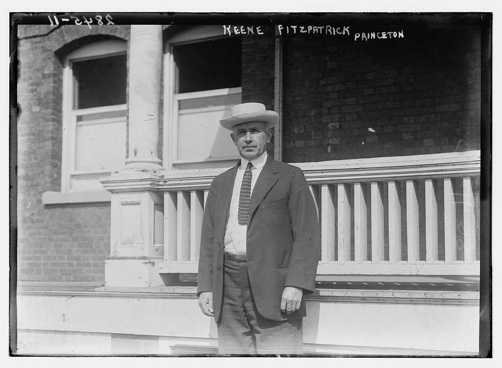 Bain News Service,, publisher. Keene Fitzpatrick at Princeton University in 1913 [between ca. 1910 and ca. 1915] 1 negative : glass ; 5 x 7 in. or smaller. Notes: Title from unverified data provided by the Bain News Service on the negatives or caption cards. Forms part of: George Grantham Bain Collection (Library of Congress). Format: Glass negatives. Repository: Library of Congress, Prints and Photographs Division, Washington, D.C. 20540 USA, General information about the Bain Collection is available at Persistent URL: Call Number: LC-B2- 2845-11